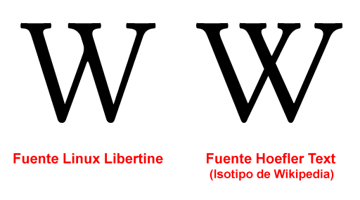 W letter. Comparison design LinLibertine font and Hoefler Text font.